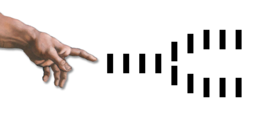 Visual representation of a split in a causal chain.